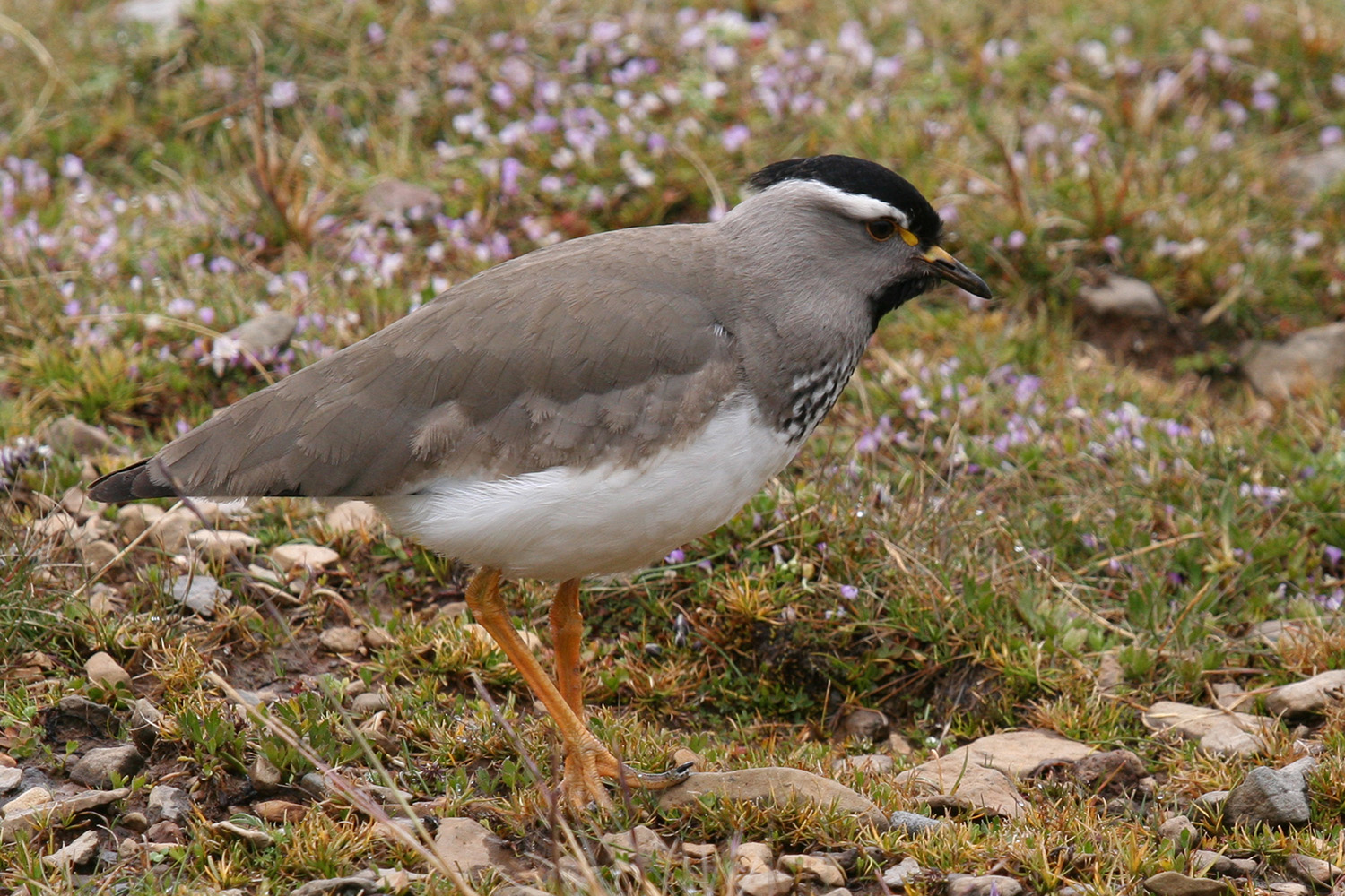 Spot-breasted lapwing photographed in Bale mountains